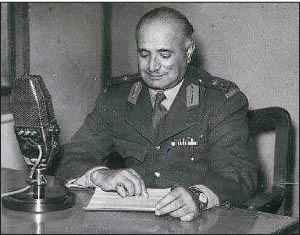 Former Iraqi Prime-Minister Nureddin Mahmud